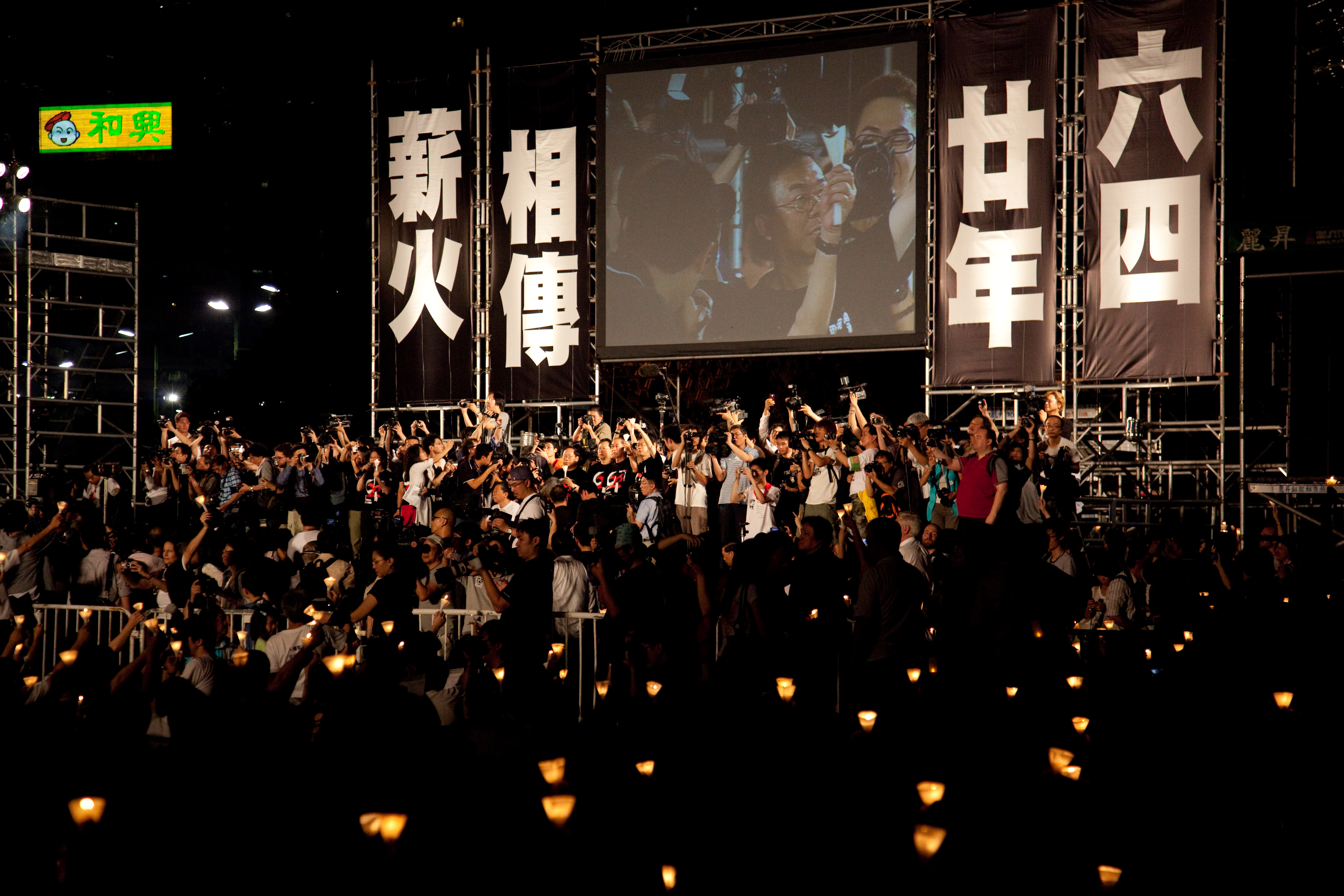 The candlelight vigil at Victoria Park, Hong Kong marking the 20th anniversary of the Tiananmen Square protests.